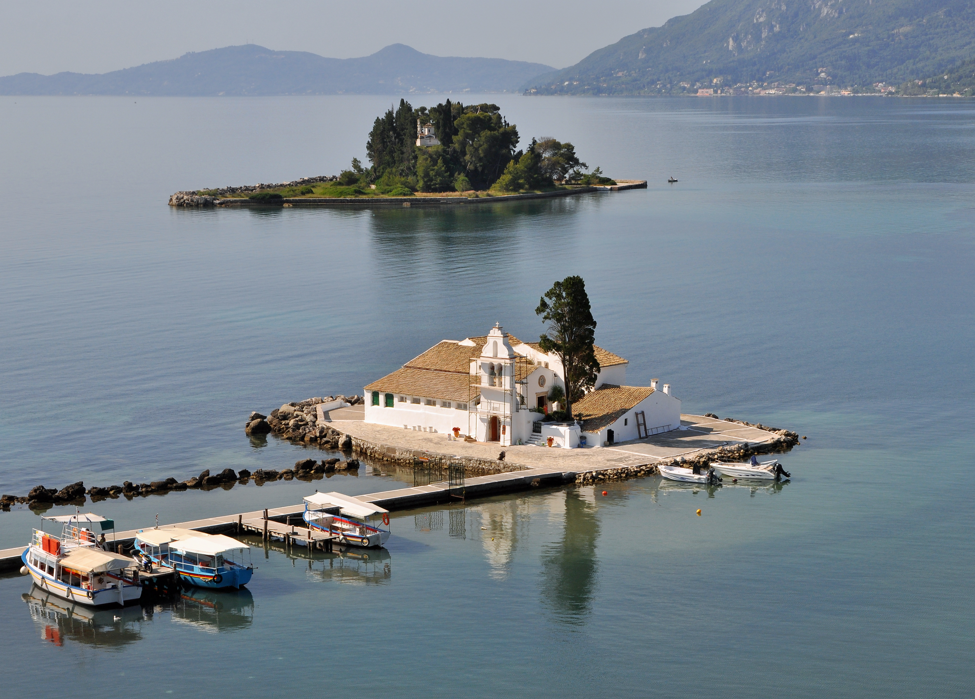 Corfu (Greece): the island and monastery of Vlacherna; beyond it: the island of Pontikonisi